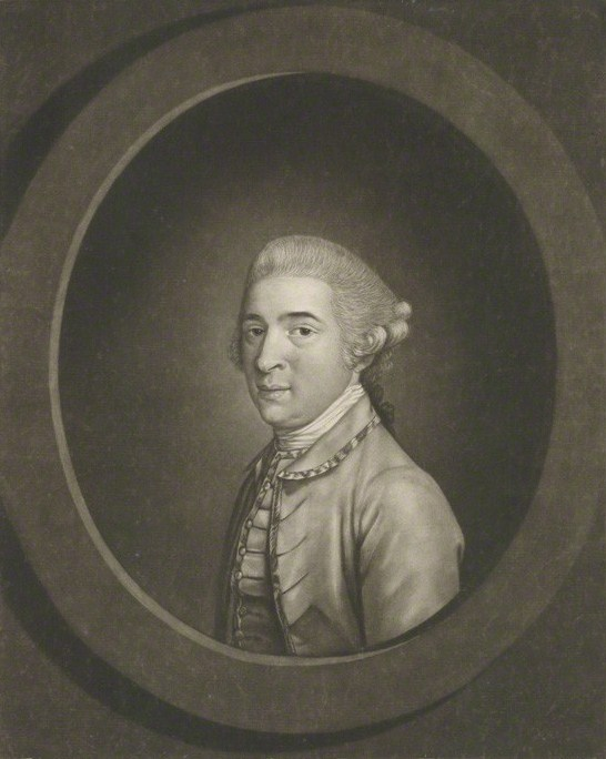 Portrait of Thomas King (1730–1805), English actor.